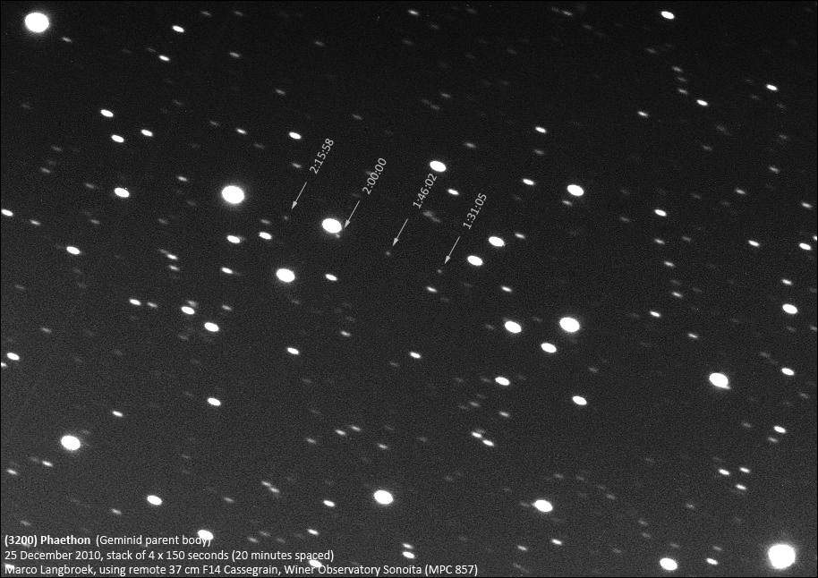 The movement of Asteroid (3200) Phaethon imaged on 25 Dec 2010 with the 37 cm F14 Cassegrain telescope of Winer Observatory, Sonoita (MPC 857) by Marco Langbroek. The image is a stack of 4 images of 150s exposure each, spaced 15 minutes apart.